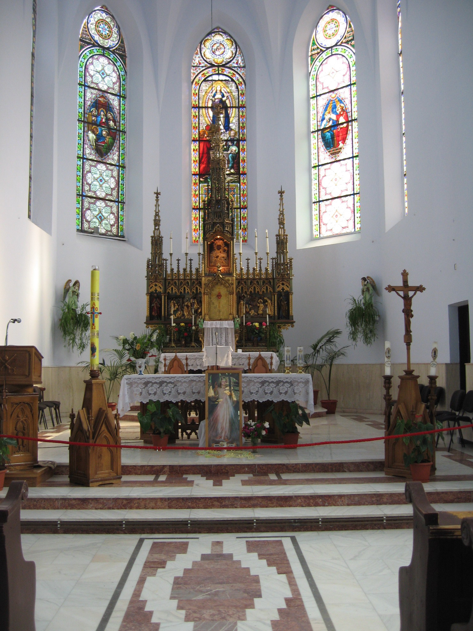 Roman-Catholic Church in Cacica, Suceava County, Romania